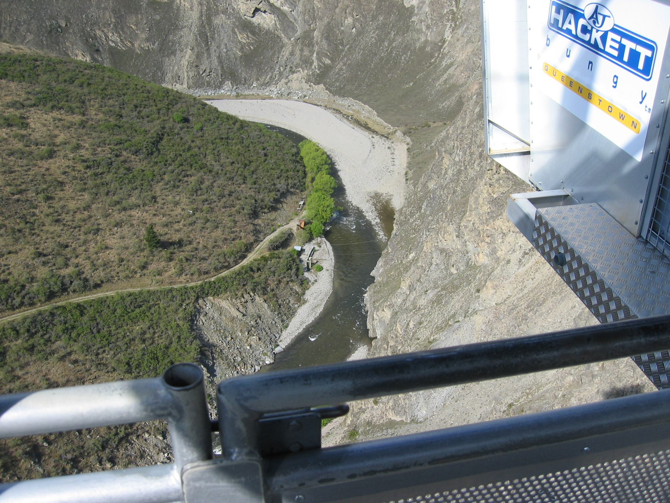 An outside view of the Nevis Bungy Platform near Queenstown, New Zealand.